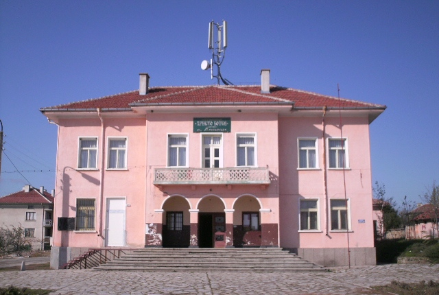 The library in village Levski, Pazadrzhik District, Bulgaria